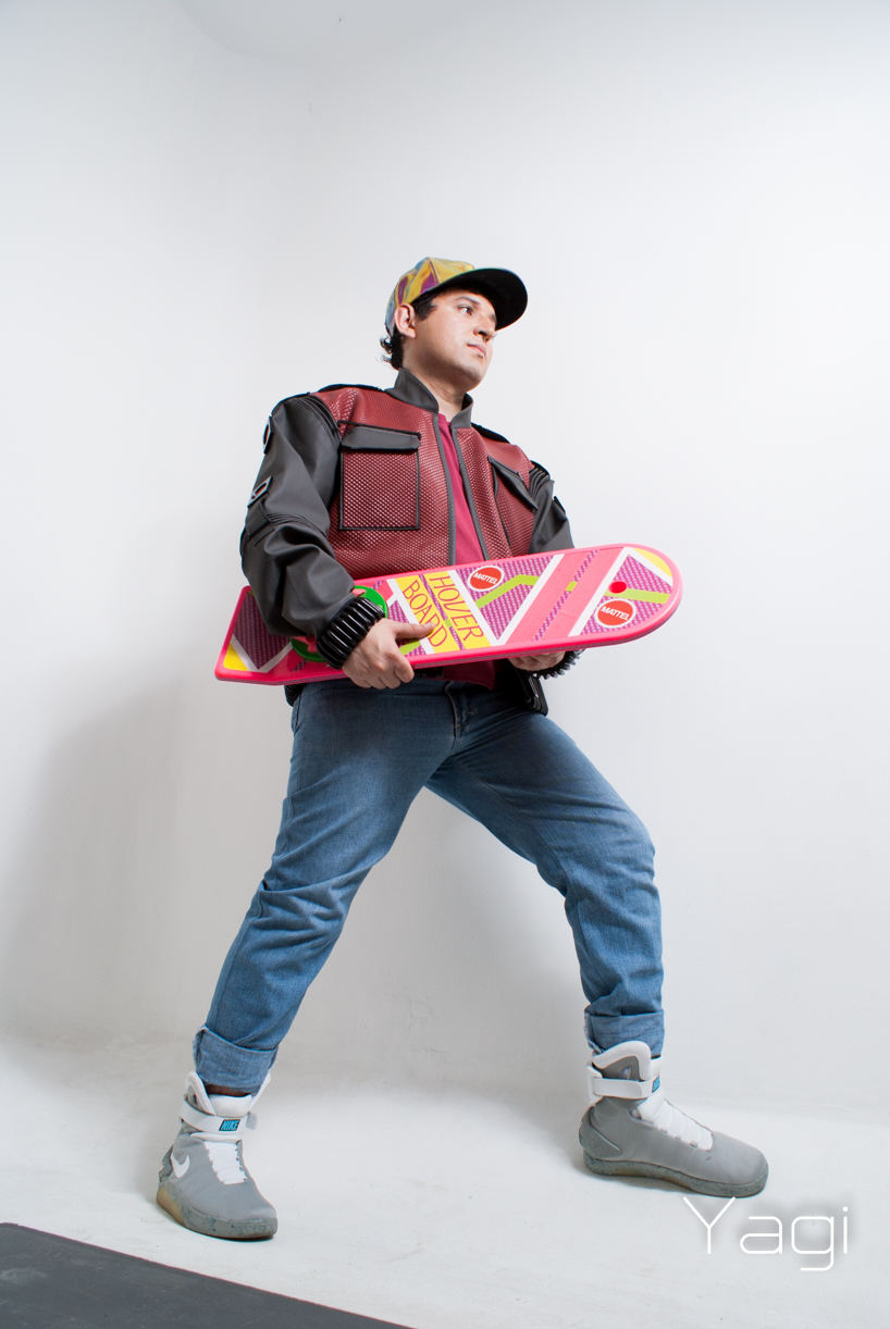 Cosplay of Marty McFly (Back to the Future Part II).